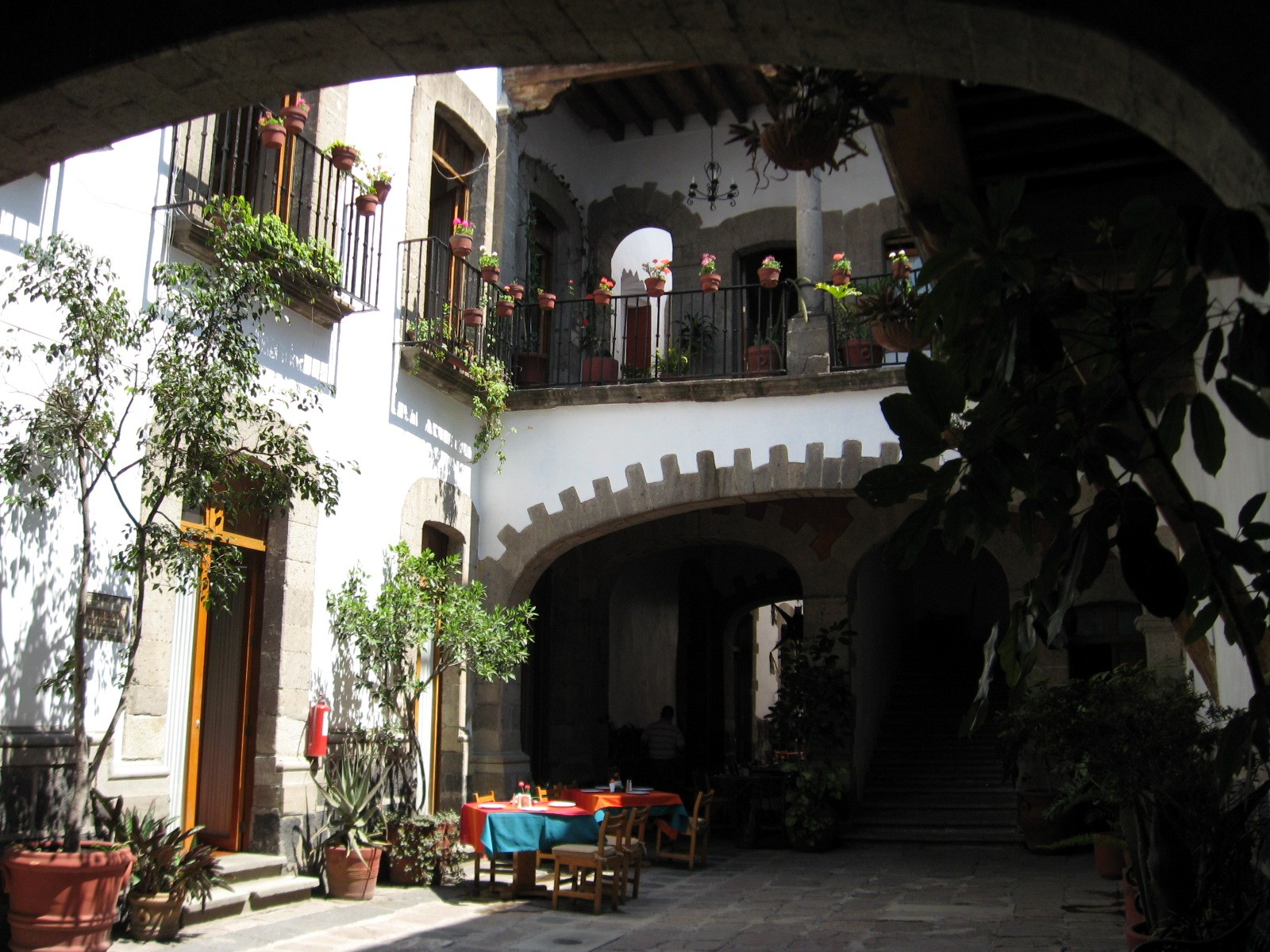 Patio area of the Tlaxcala House at 40 San Ildefonso Street in the historic center of Mexico City